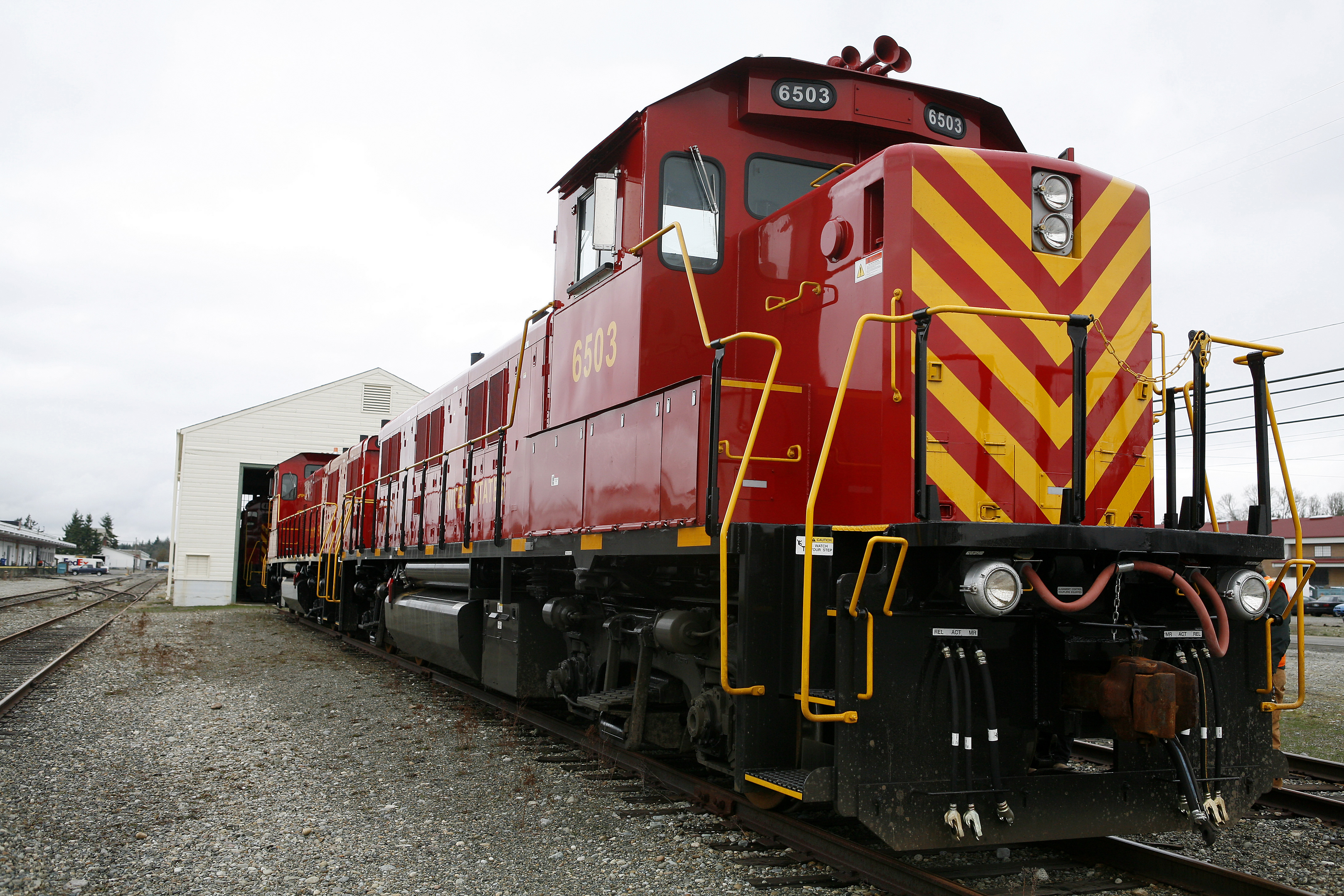 A newly acquired Ultra Low Emitting Locomotive sits on railroad tracks Jan. 13 at Fort Lewis.